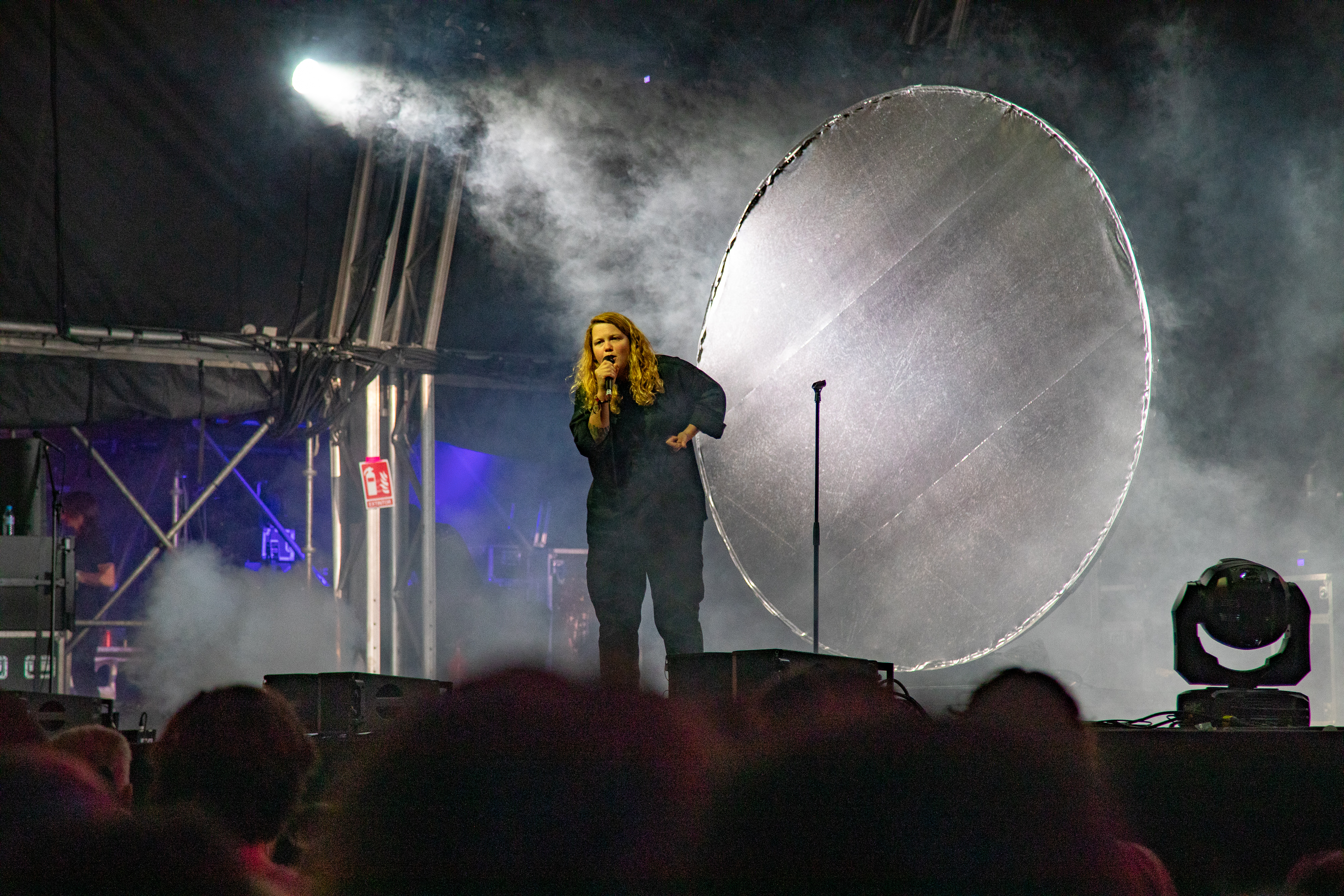 Kate Tempest performing at Primavera Sound 2019.